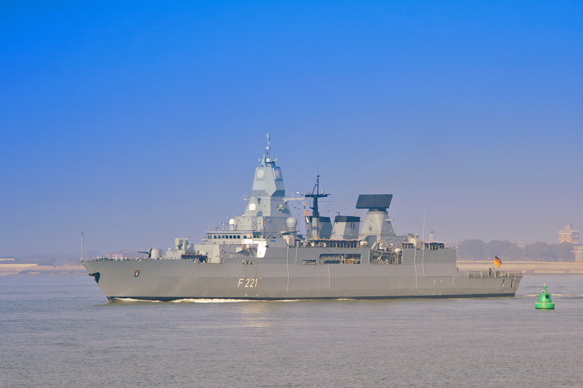 German Navy Sachsen class air-defence frigate Hessen (F221) photographed on 12 March 2012 by Brian Burnell outward bound from Portsmouth Naval Base, UK, after a short visit. Image uploaded by me User:George.Hutchinson from a photograph taken by and supplied by Brian Burnell. Wikipedia editors are reminded that the copyright remains with the photographer, and that the terms of the CC-BY-SA-3.0; that allow editors to reuse this image apply to Wikipedia editors also, as they do to other re-users of this image. Breaches of the licence terms are not only unlawful, but are also antisocial, in that breaches discourage photographers from making their images freely available to everyone without payment. Wikipedia re-users are also reminded of the license terms that derivatives of this image should not imply that the adaptation is endorsed or approved by the author or copyright holder. Neither should derivatives be presented as the creation of the author or copyright holder, while clearly stating that the adaptation is a derivative of the original. Attribution online should be in this format Brian Burnell. On the printed page, a simpler form is acceptable - example: "Image: Brian Burnell". Non-Wikipedia users are requested to advise Brian Burnell of its use other than on Wikipedia.